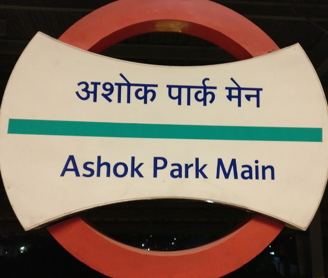 Ashoke Park, Delhi Metro